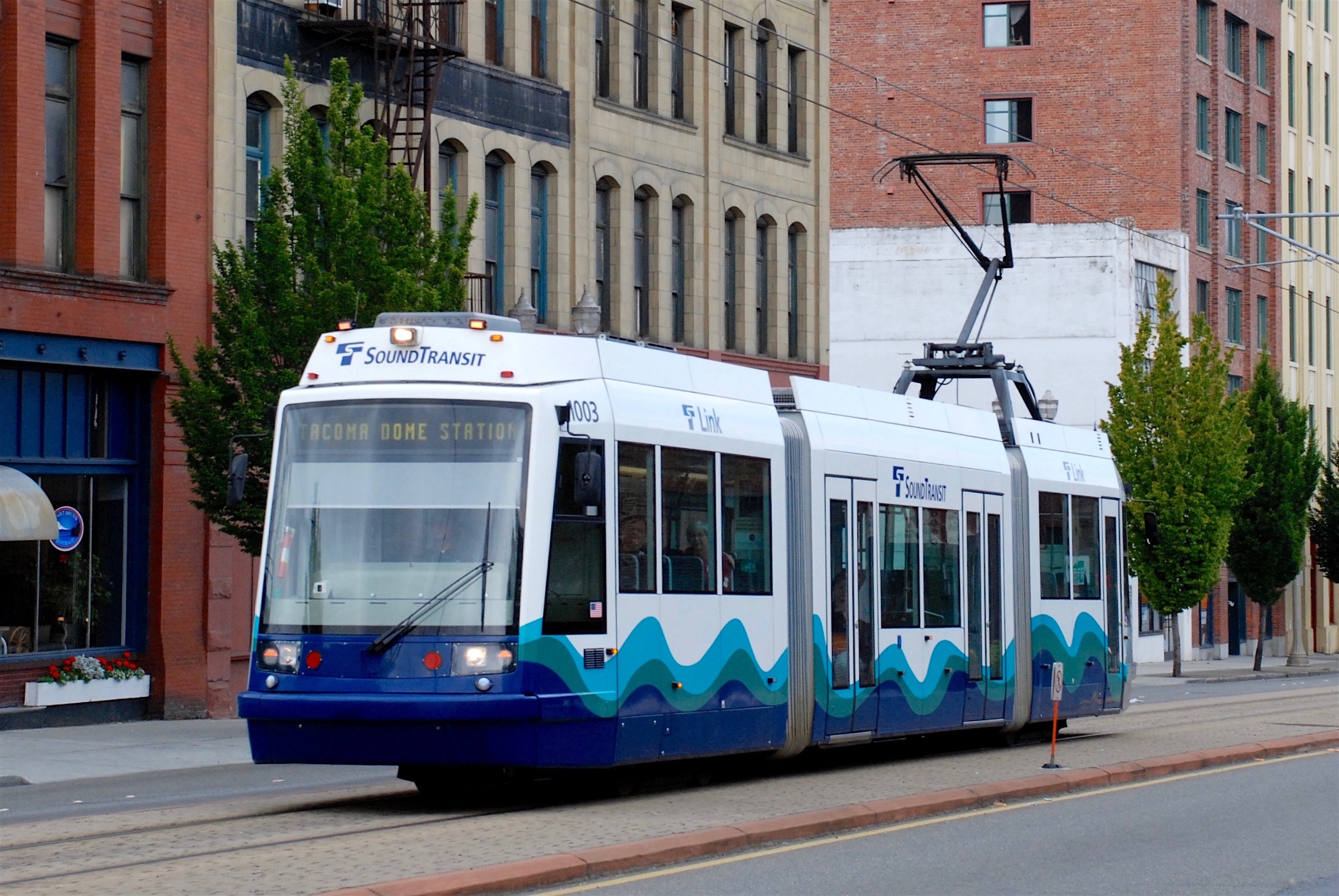 Sound Transit Tacoma Link car 1003, a 2002 Škoda 10T, southbound in the center of Pacific Avenue, in a slightly raised trackway that is reserved for use only by Tacoma Link light rail cars.